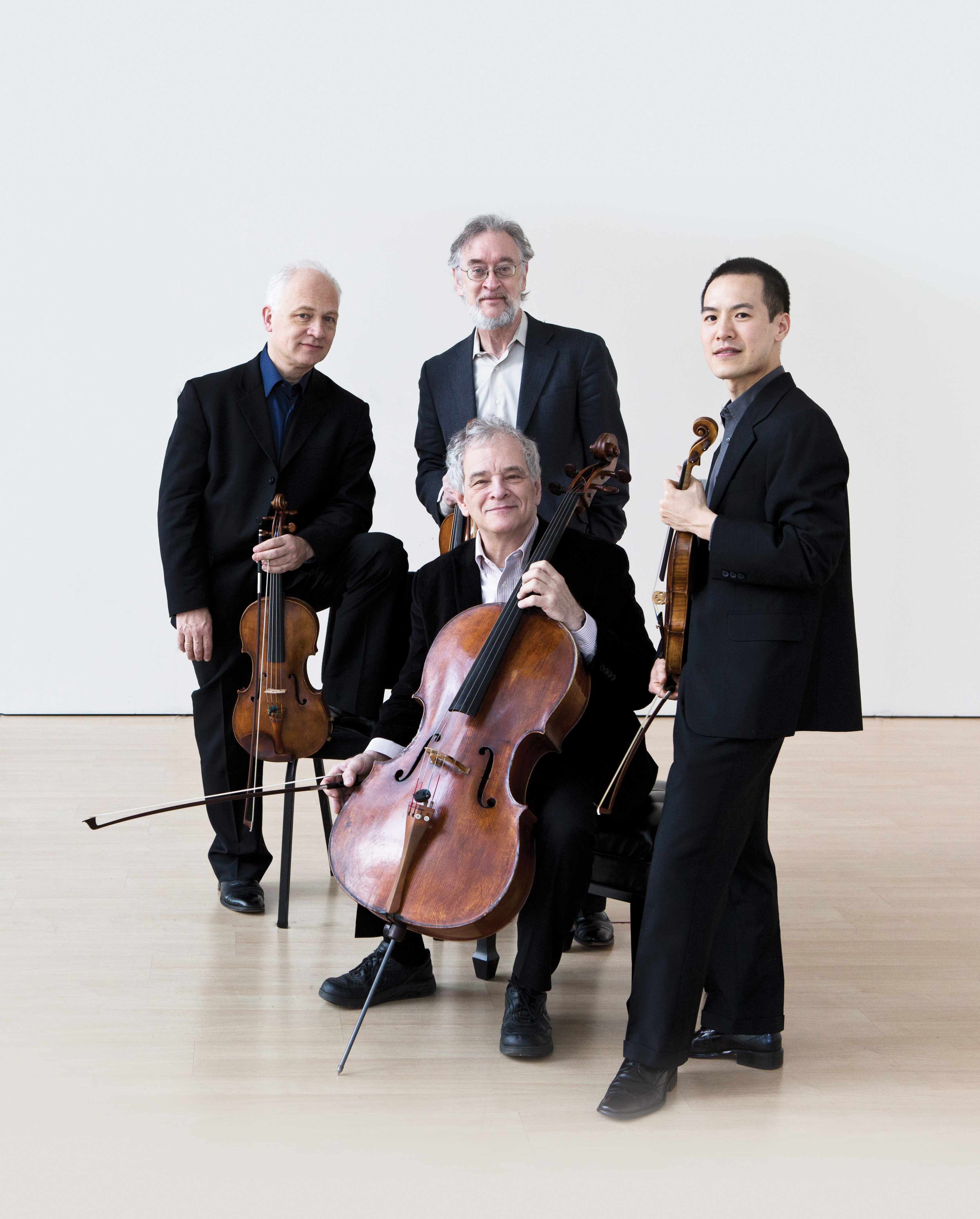 Juilliard String Quartet